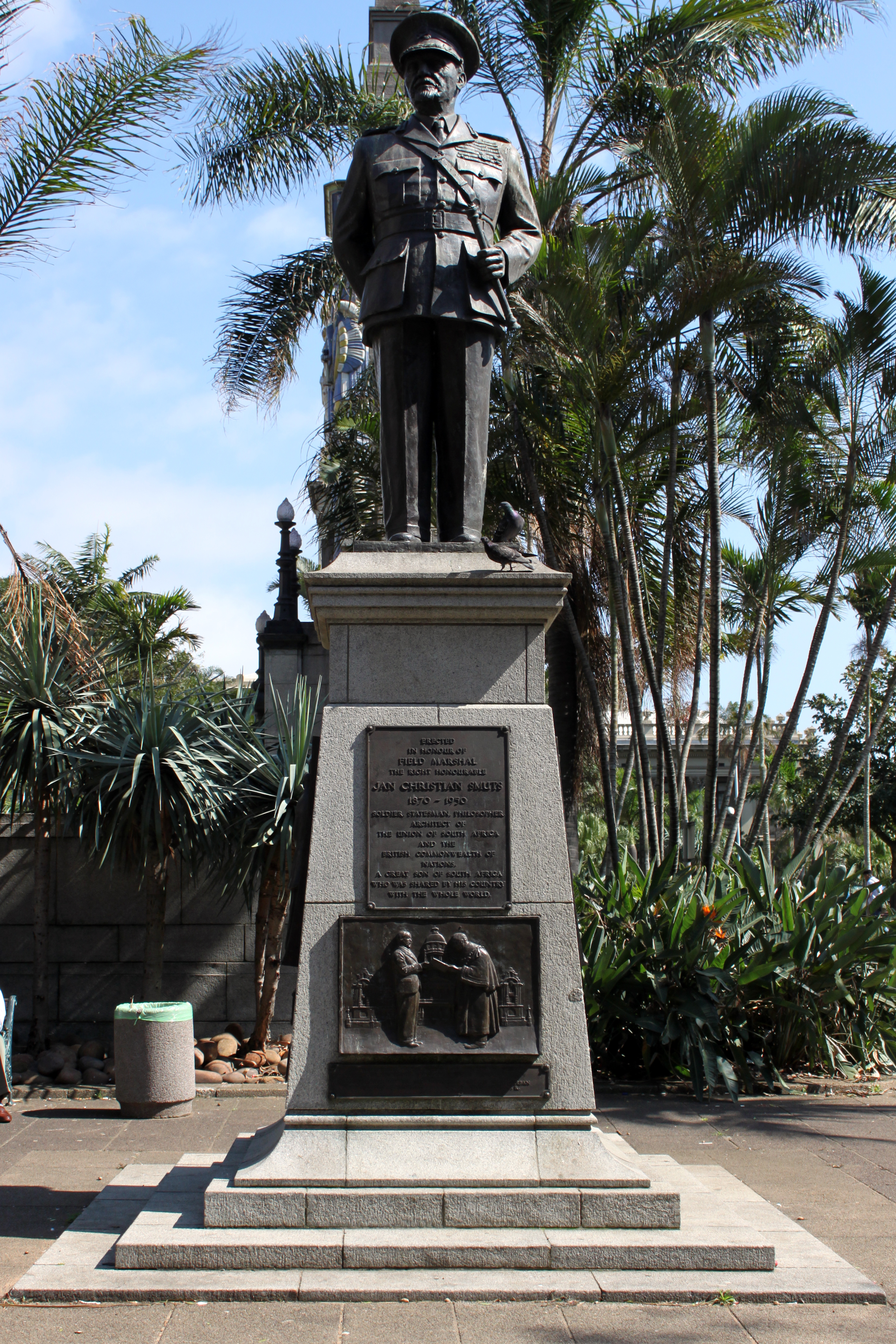 Jan Smuts Statue in Durban, South Africa